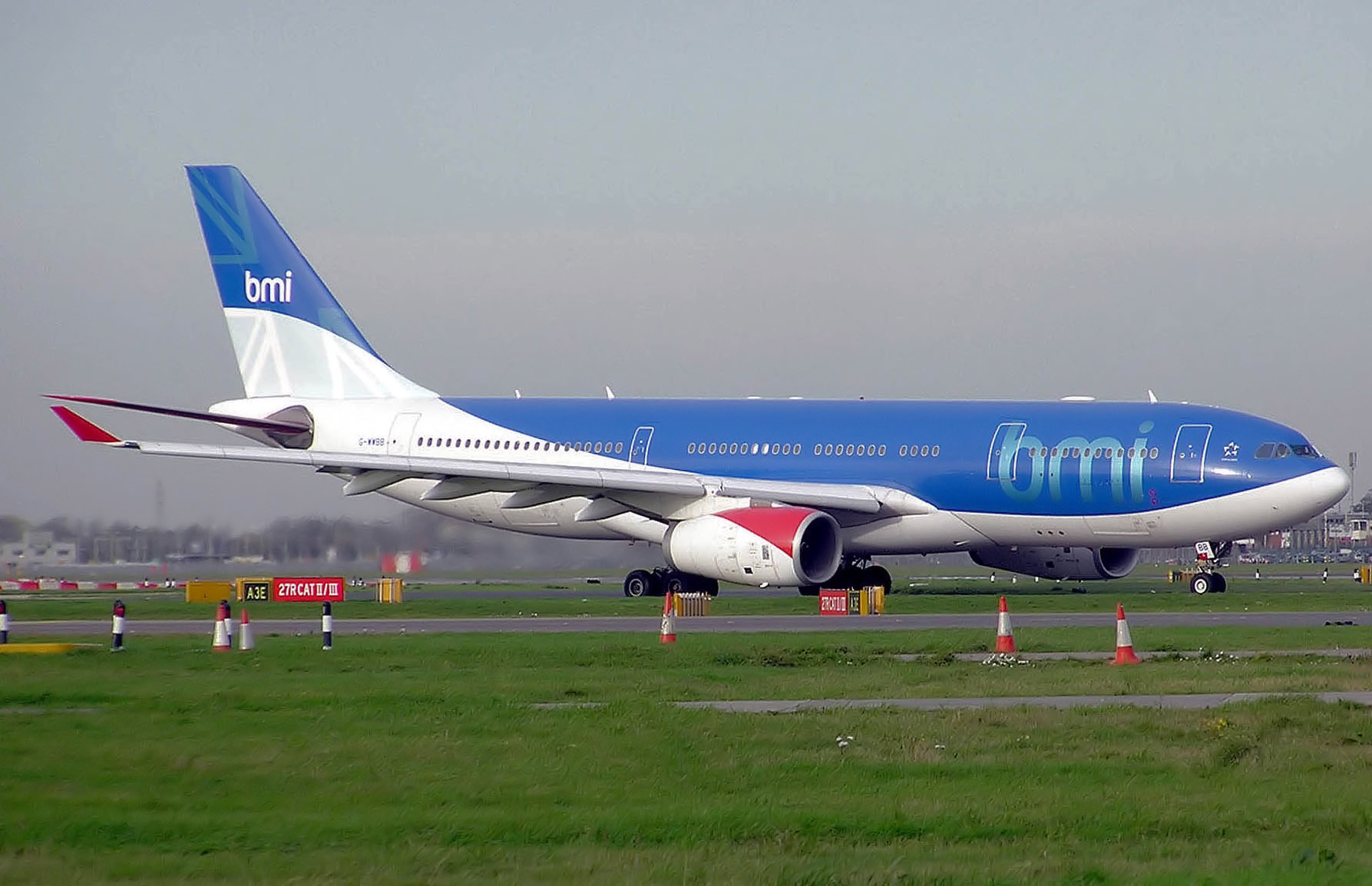 bmi Airbus A330-200 (G-WWBB) in the take off queue at London (Heathrow) Airport, England.